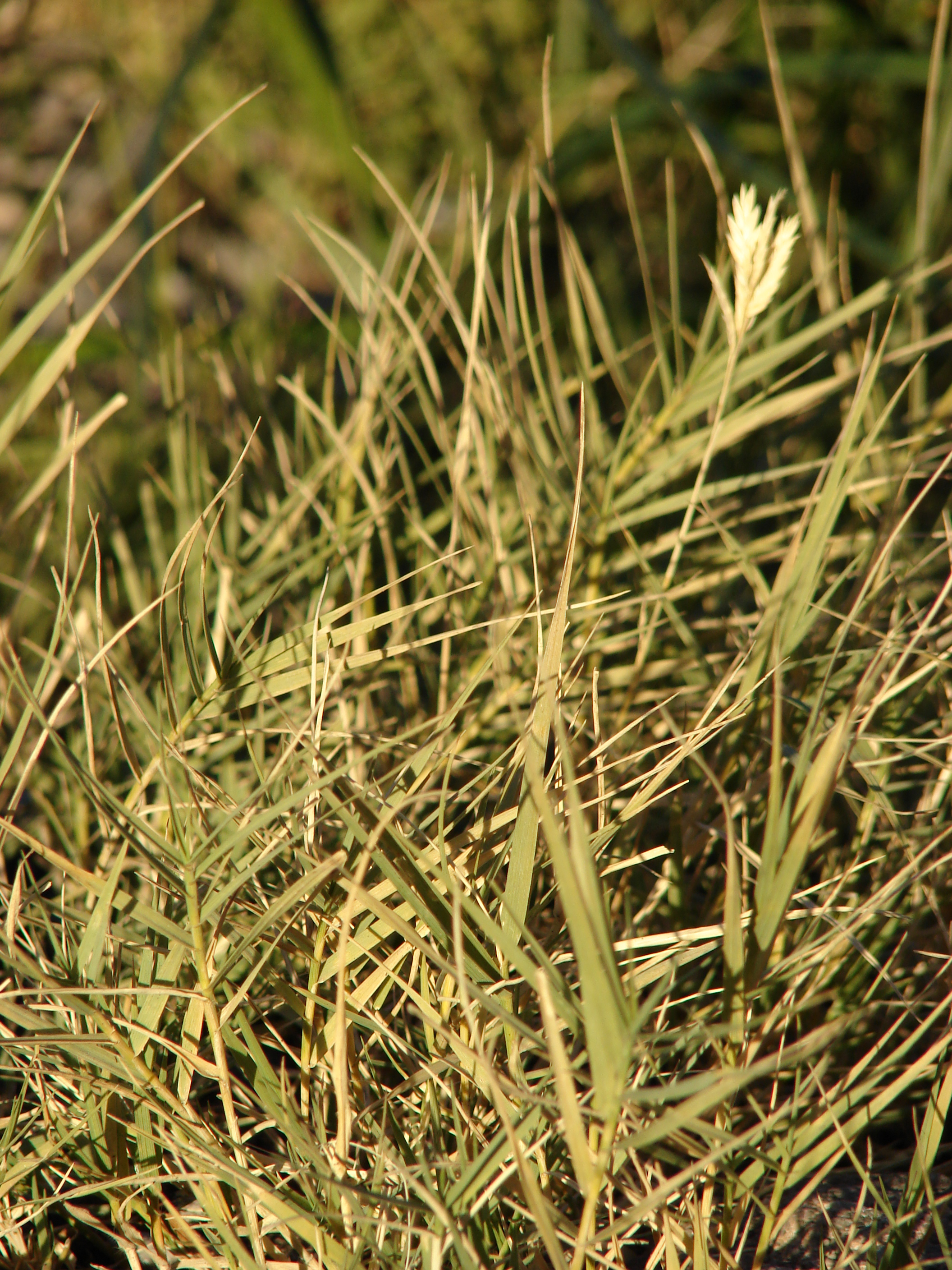 Distichlis spicata (habit). Location: Nevada, Rogers Spring Northshore Rd Lake Mead